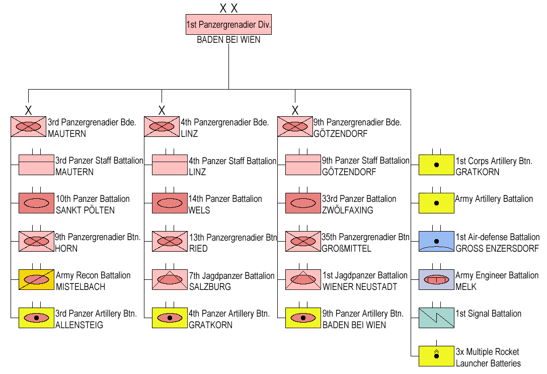 1st Austrian Mechanized Division Structure 1989